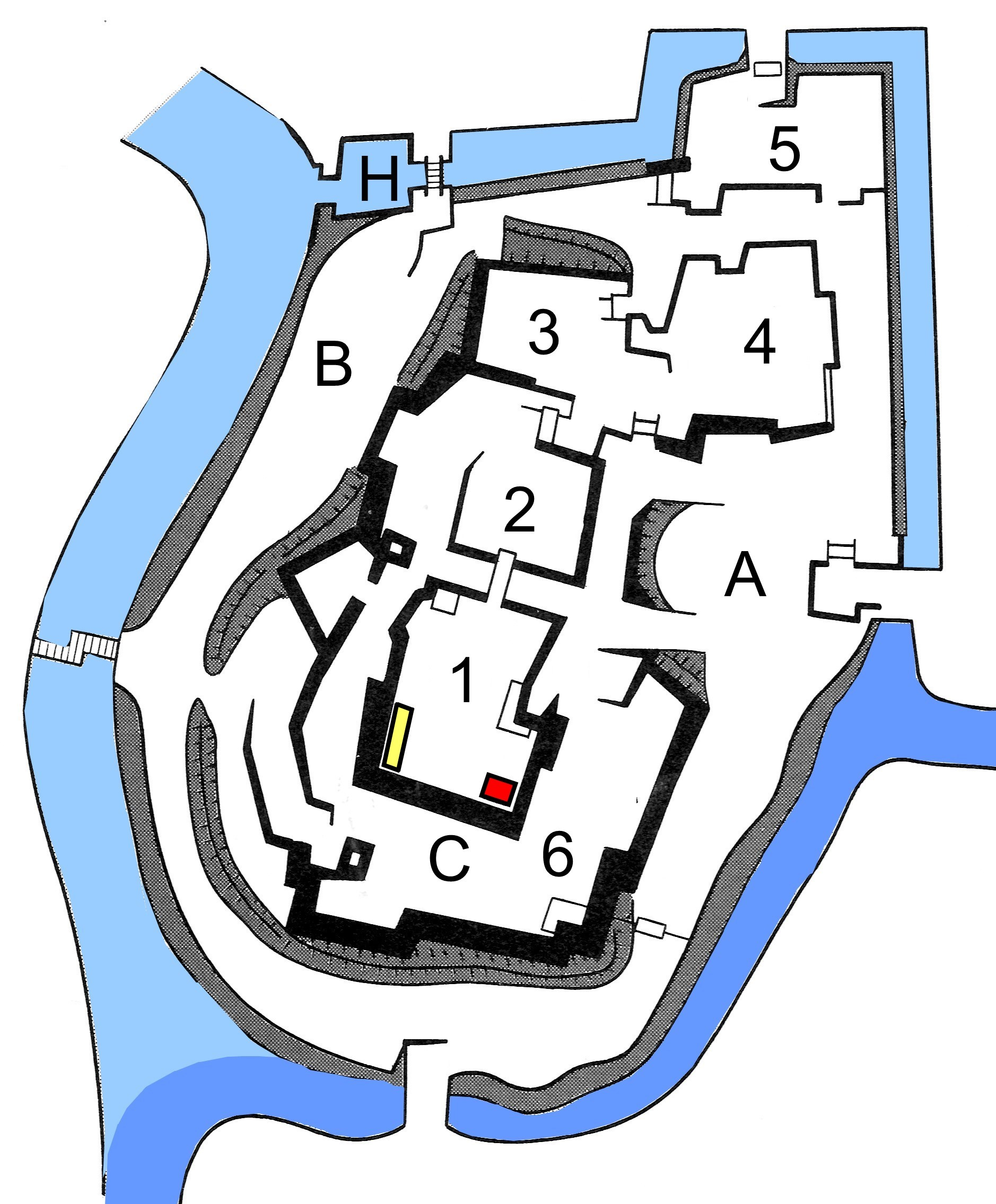 Layout of Morioka Castle